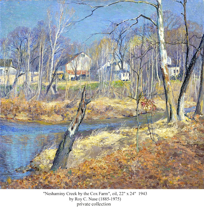 "Neshaminy Creek by the Cox Farm," oil, 22" x 24"